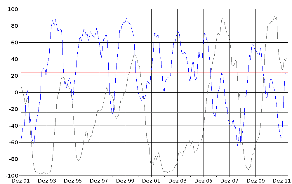 ZEW-Index since December 1991; in blue: Expectations, in red: average of expectations; in gray: Situation and average of Situation